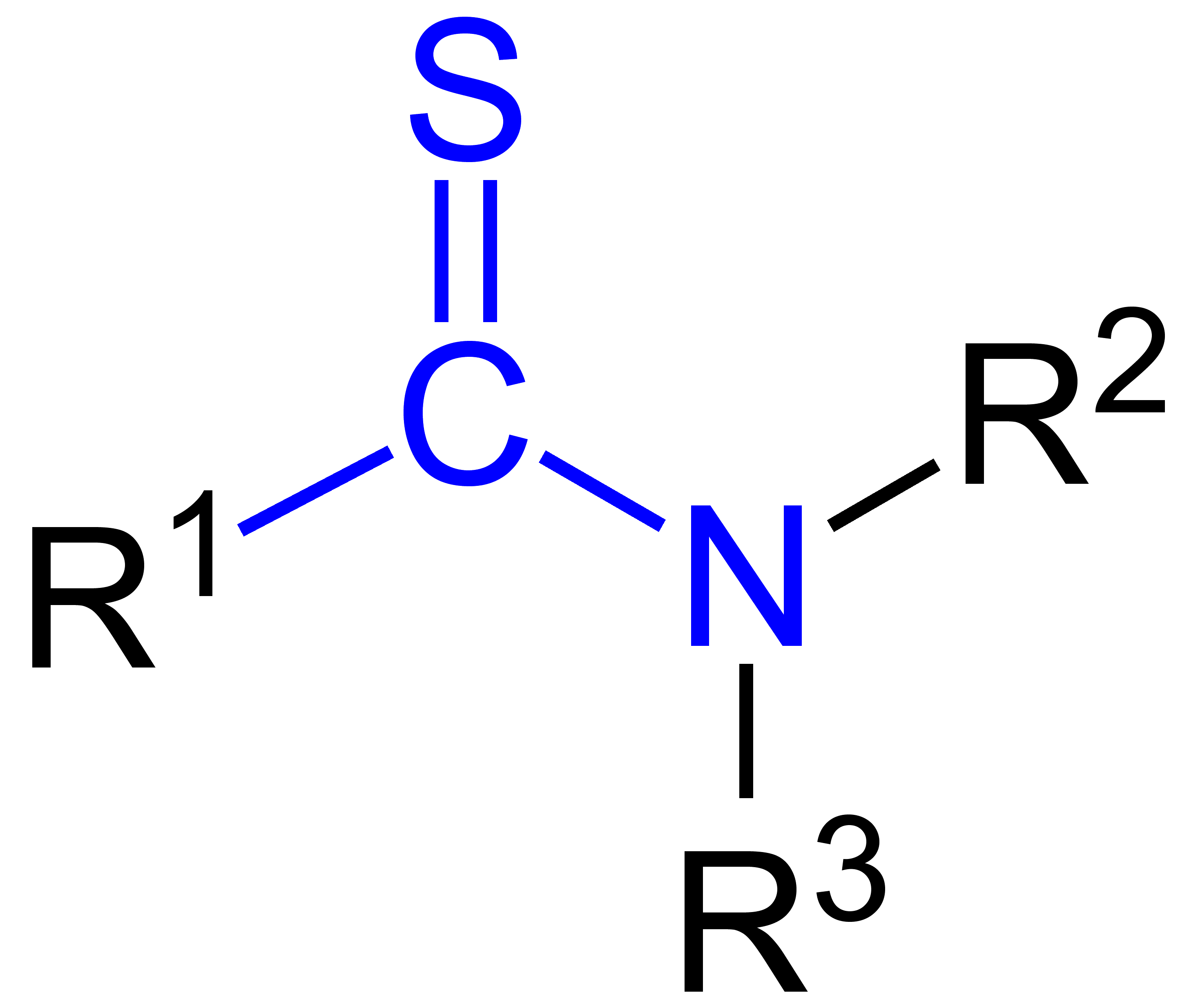 Thionamide_group